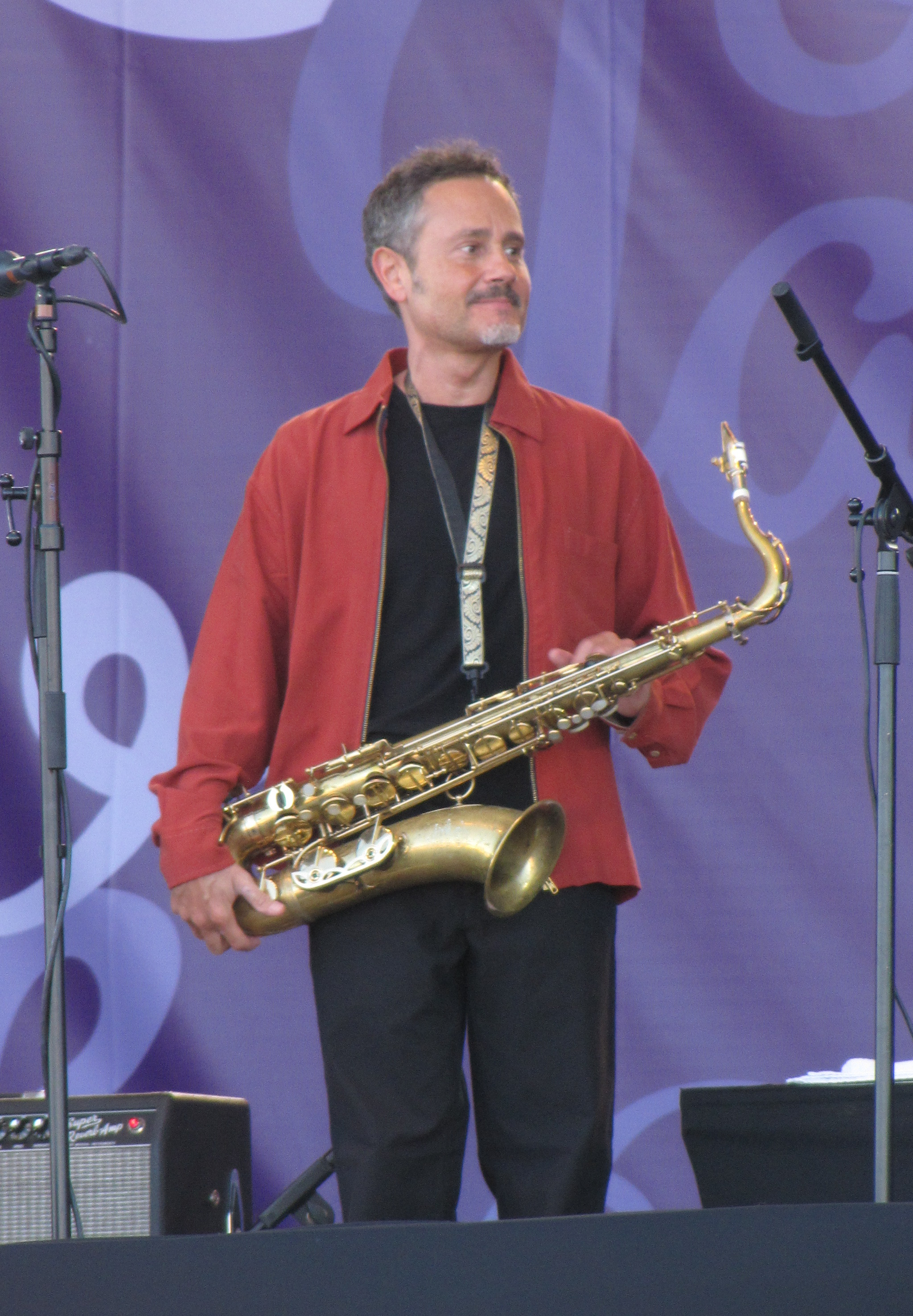 Saxophonist Rick Margitza playing with the band "Miles Smiles" at Pori Jazz festival in 2012 in Pori, Finland.